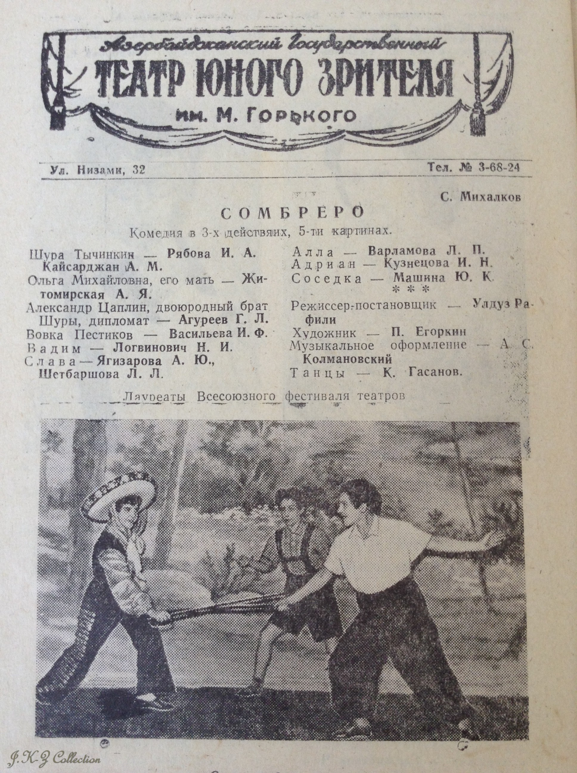 Simple page copy